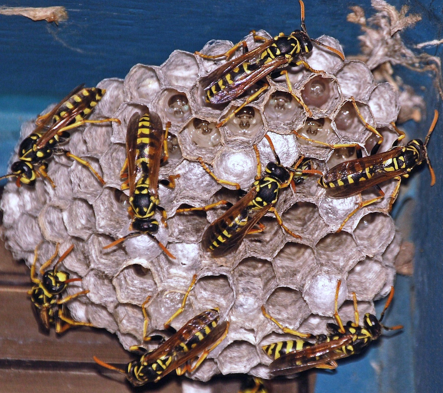 Wasp nest above a window in the rear of my home